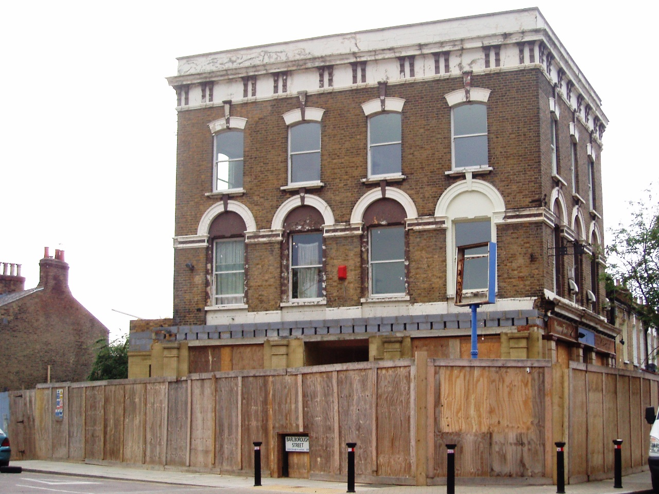 The Duke of Albany, used in the movie "Shaun of the Dead" as The Winchester.